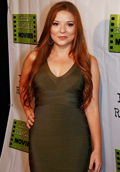 Bianca Ryan at the September 2014 premiere of We Are Kings in Los Angeles, California